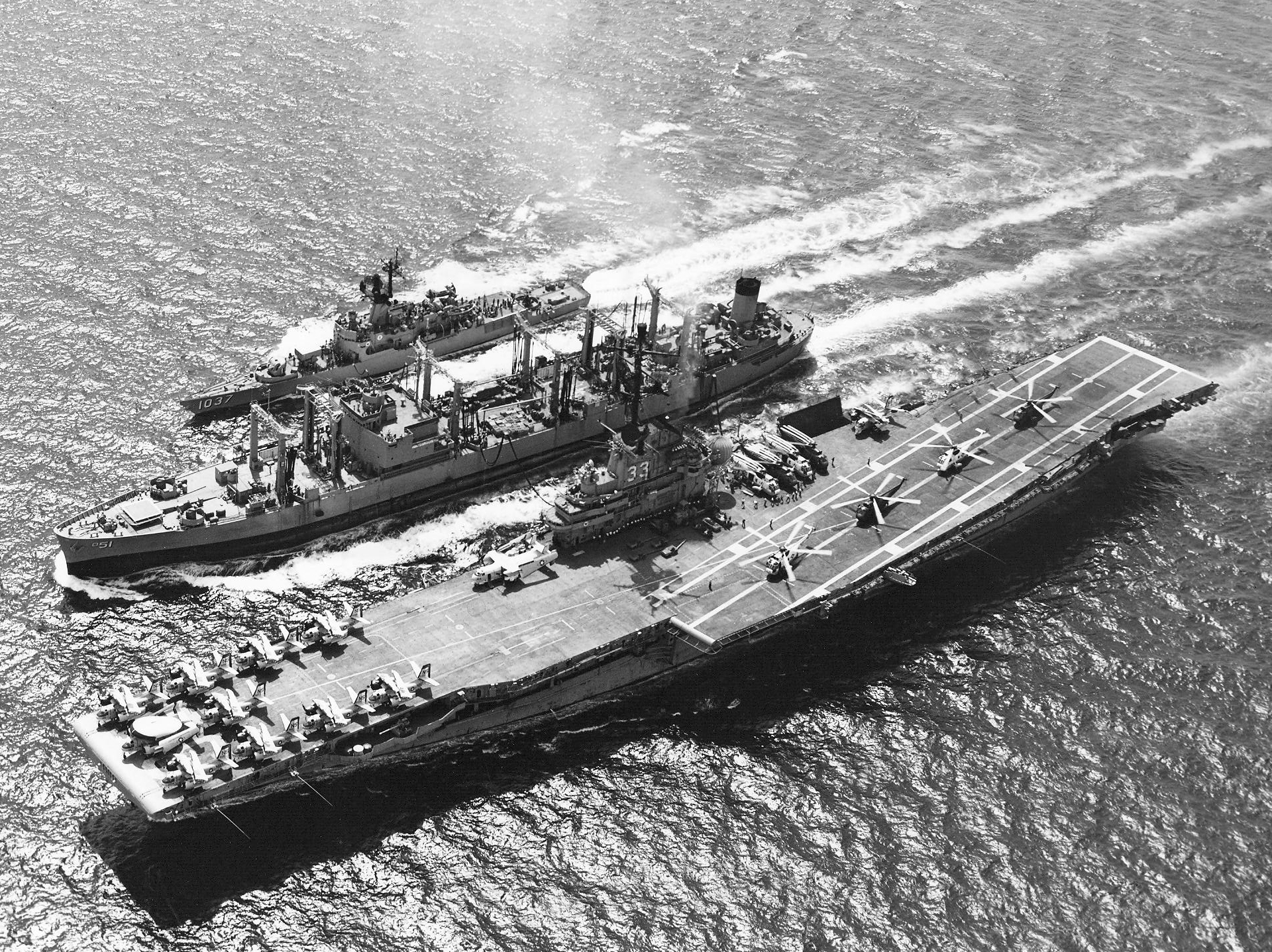 The U.S. Navy oiler USS Ashtabula (AO-51) refuels the aircraft carrier USS Kearsarge (CVS-33) and destroyer escort USS Bronstein (DE-1037) in the Tonkin Gulf. Kearsarge was deployed to Vietnam with Carrier Anti-Submarine Air Group 53 (CVSG-53) from 29 March to 4 September 1969. This was her last deployment before her decommissioning on 15 January 1970. Note the fifferent colour schemes of the Sikorsky SH-3A Sea King helicopters of Helicopter Anti-Submarine Squadron HS-6 Indians. The dark-painted Sea Kings were often stripped of their ASW-gear, armed, and used to rescue downed aviators from Vietnam.